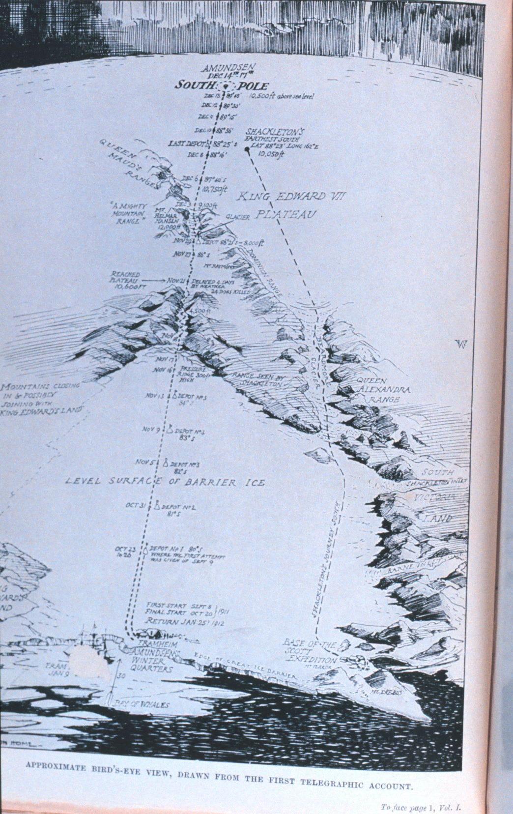 Route map showing the routes of Shackleton and Amundsen